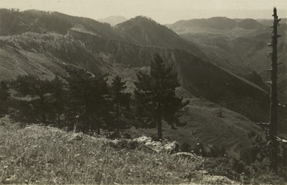 Bulgaria